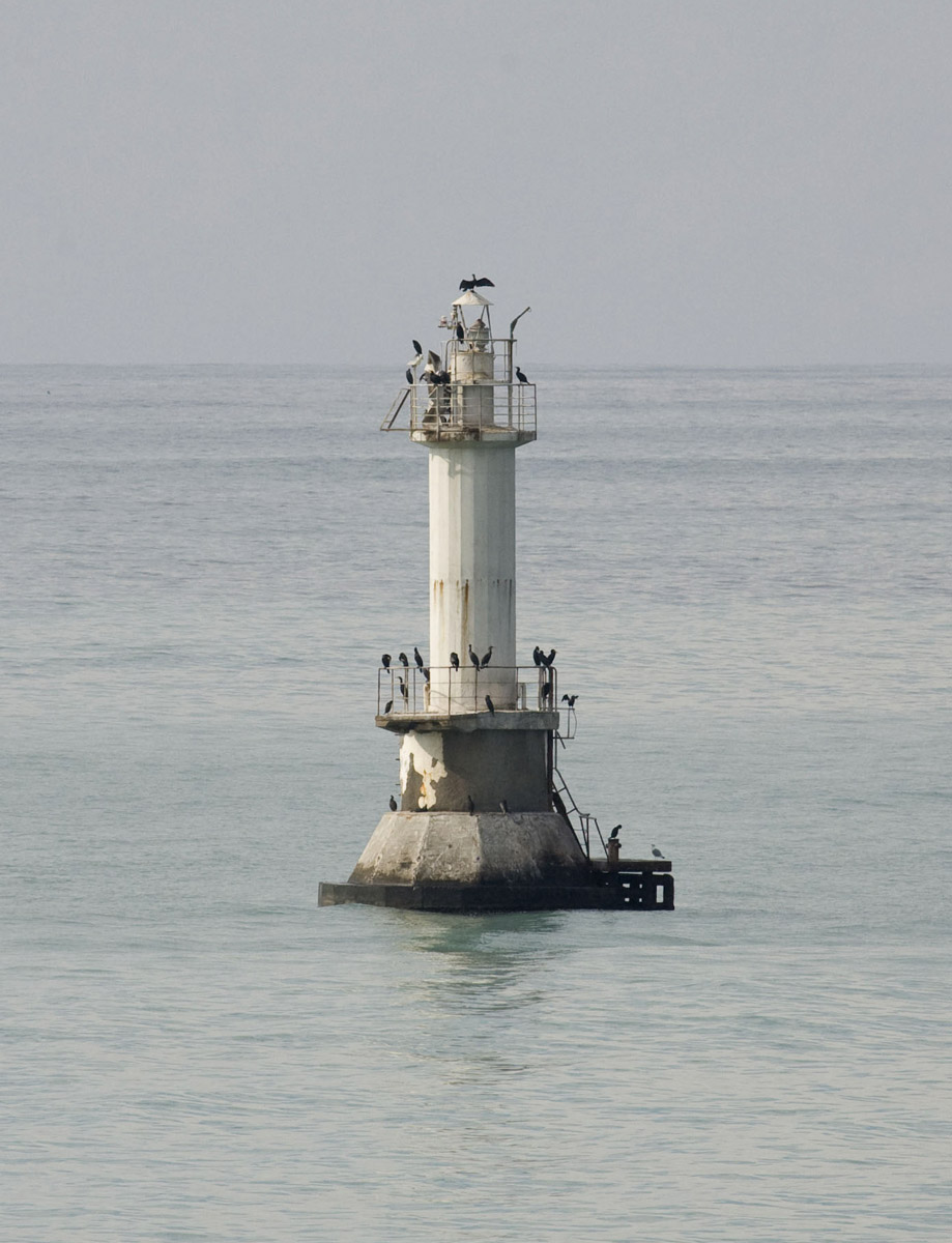 Sudjukskiy lighthouse, Novorossiysk, Russia.